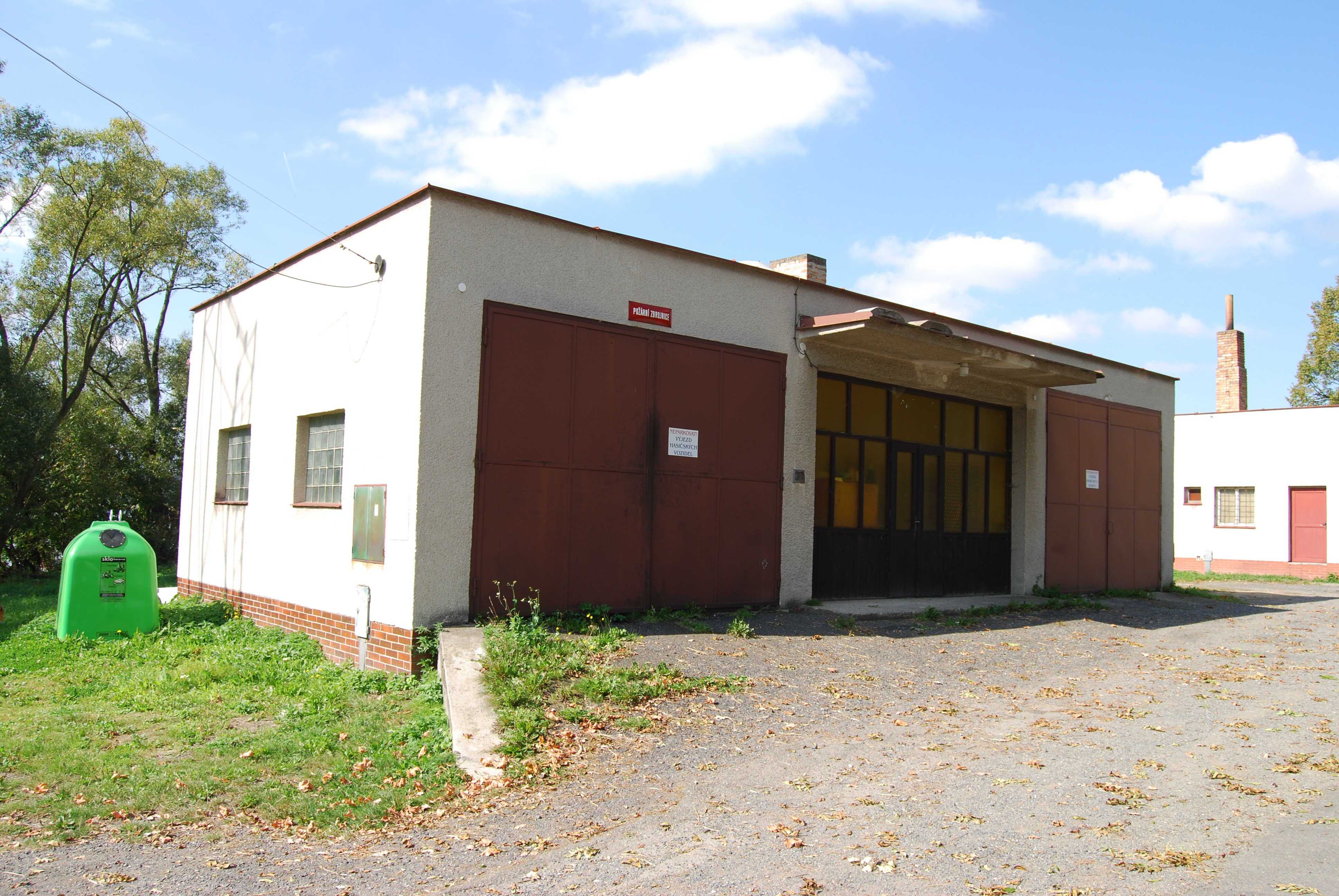 Myštice village in Strakonice District, Czech Republic.